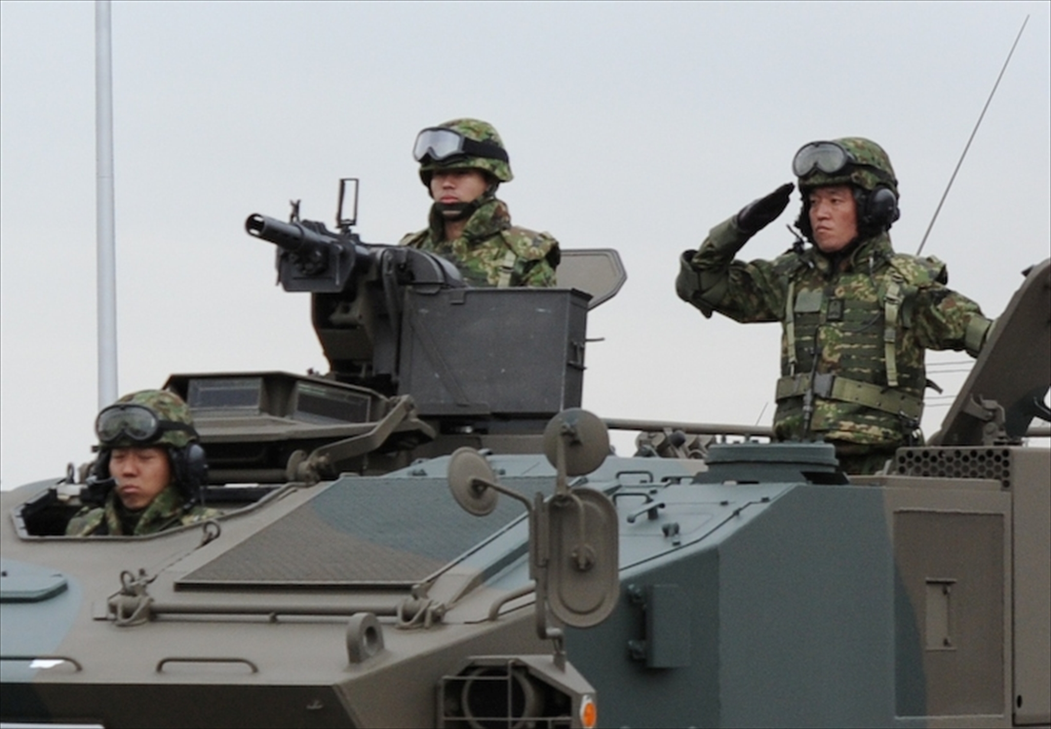 Title ９６式装輪装甲車 Ｈ２２観閲式13_06_036.JPG Album 装備 ９６式４０ｍｍ自動てき弾銃（平成２２年度自衛隊観閲式）